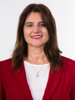 Photo of Sofía Cid as deputy of the Republic of Chile in 2018